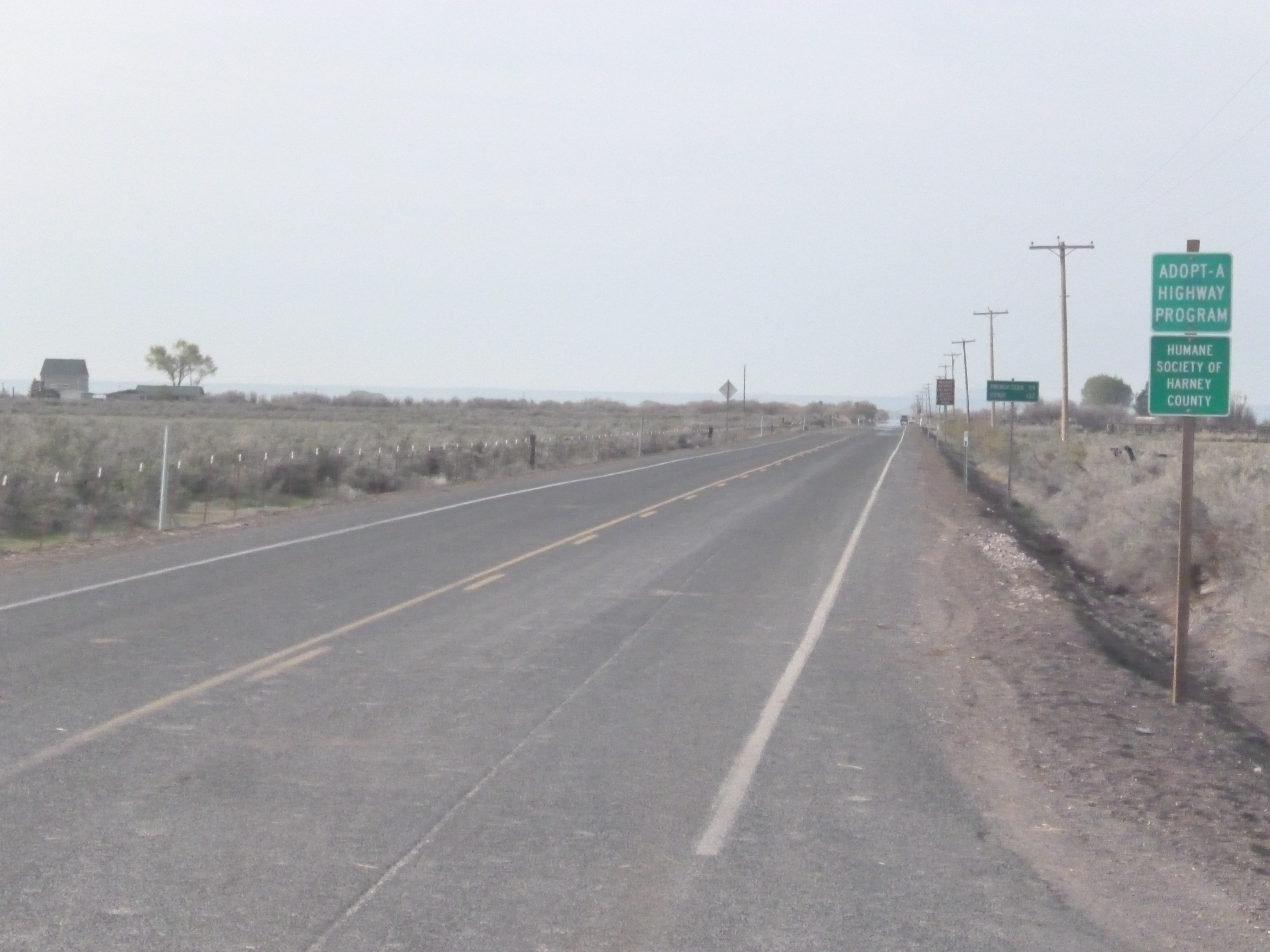 North End of Oregon Route 205 in Burns, Oregon.